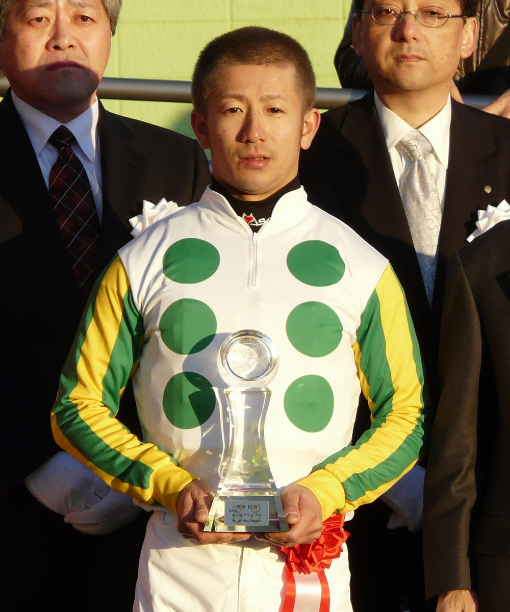 Manabu-Sakai20111223